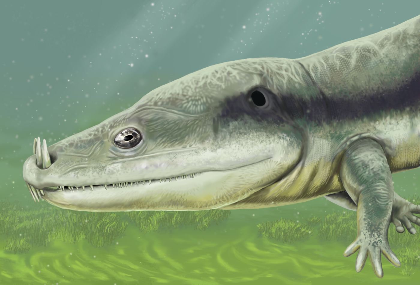 Life restoration of Microposaurus averyi. Based on figures 2 and 3 of "The South African stereospondyl Microposaurus from the Middle Triassic of the Sydney Basin, Australia" by Anne Warren (Journal of Vertebrate Paleontology 32(3): 538-544). The spiracle in the otic notch is inferred from its possible presence in other stereospondyls such as Dutuitosaurus, according to Laurin and Soler-Gijón (2006)